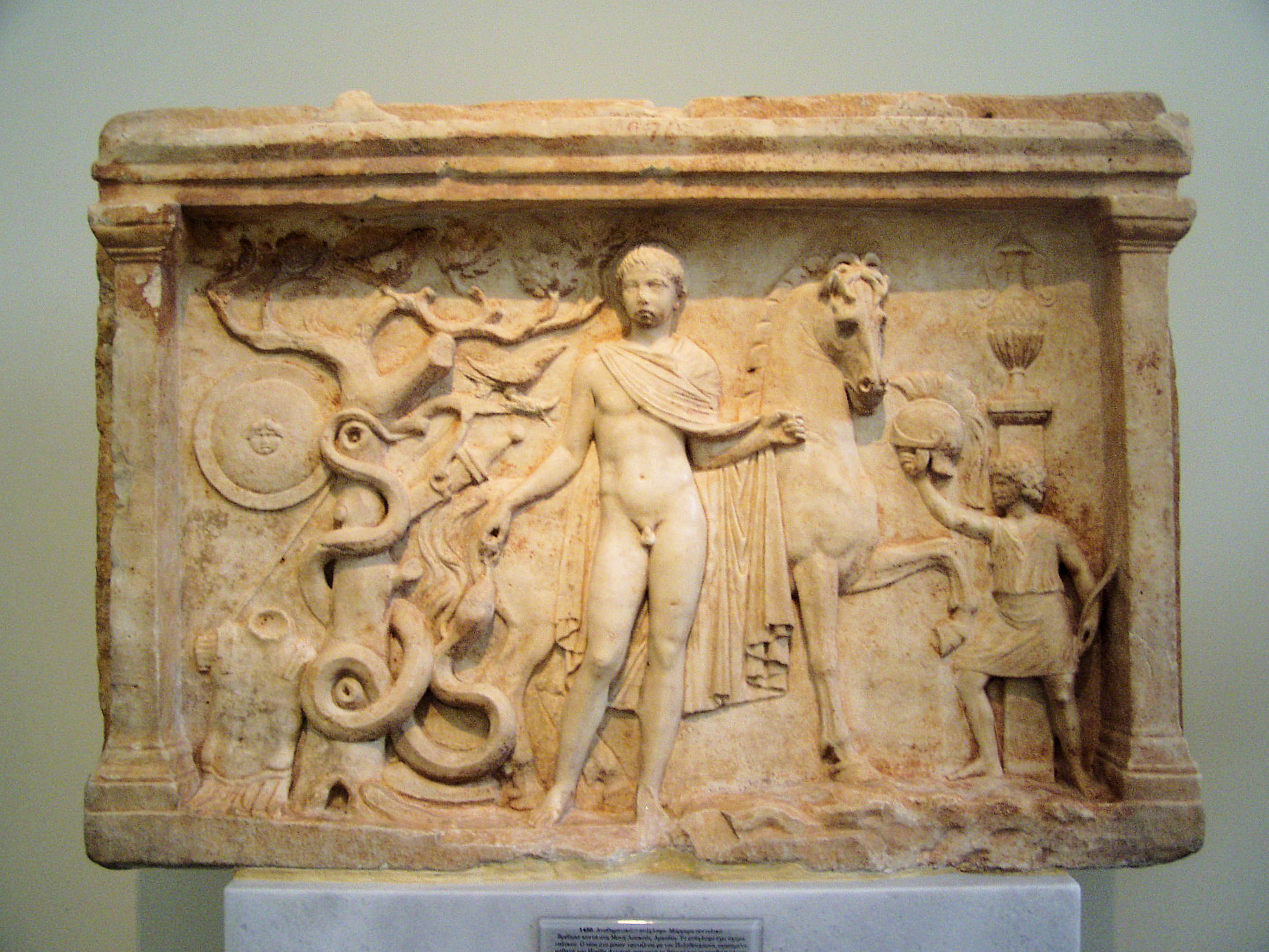 Votive relief, Pentelic marble, 2nd c. C.E. Polydeukes/Polydeukion was the favorite pupil and beloved of stoic philosopher and millionaire philanthropist Herodes Atticus. He died while still a youth, and his mentor organized a cult in his honor, analogous to that devised by Hadrian for Antinous. Here he is shown with heroic attributes: the serpent, and his nudity. National Archeological Museum, Athens, Nr 1450.